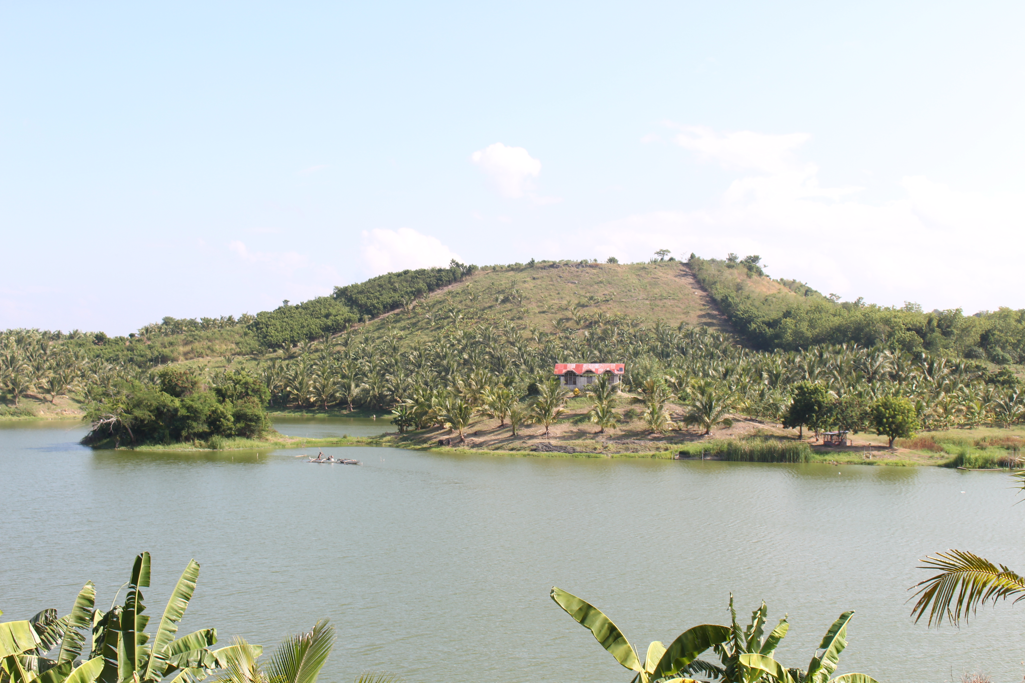 Lake Beto was located in Barangay Spring, Municipality of Alabel, Province of Sarangani known as a scouting venue. The lake was in front of a private memorial sanctuary.